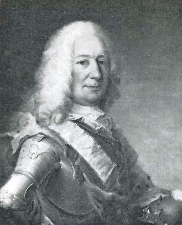 Christian Lensgreve Lerche-Lerchenborg